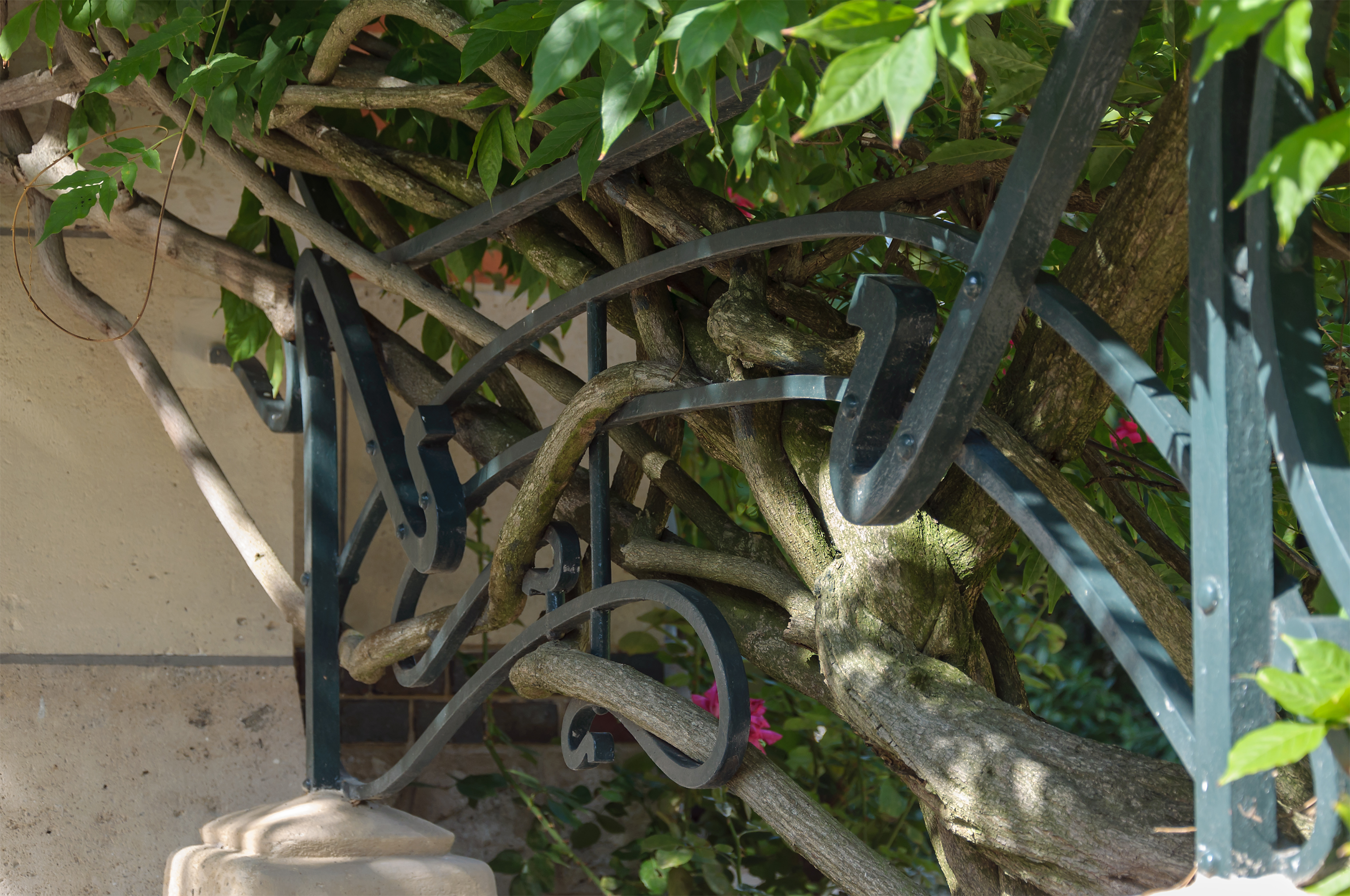 Detail of ironwork, tangled with vegetation, of the perron of the Villa Berthe, also known as La Hublotière, in Le Vésinet, Yvelines, France. Architect: Hector Guimard.